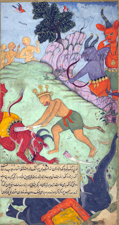 "Folio from the Ramayana of Valmiki (The Freer Ramayana), Vol. 2, folio 227; recto: text; verso: Angada strikes down Devantaka with a tusk torn from Mahodara's elephant 1597-1605 Shyam Sundar , (Indian, Mughal dynasty "